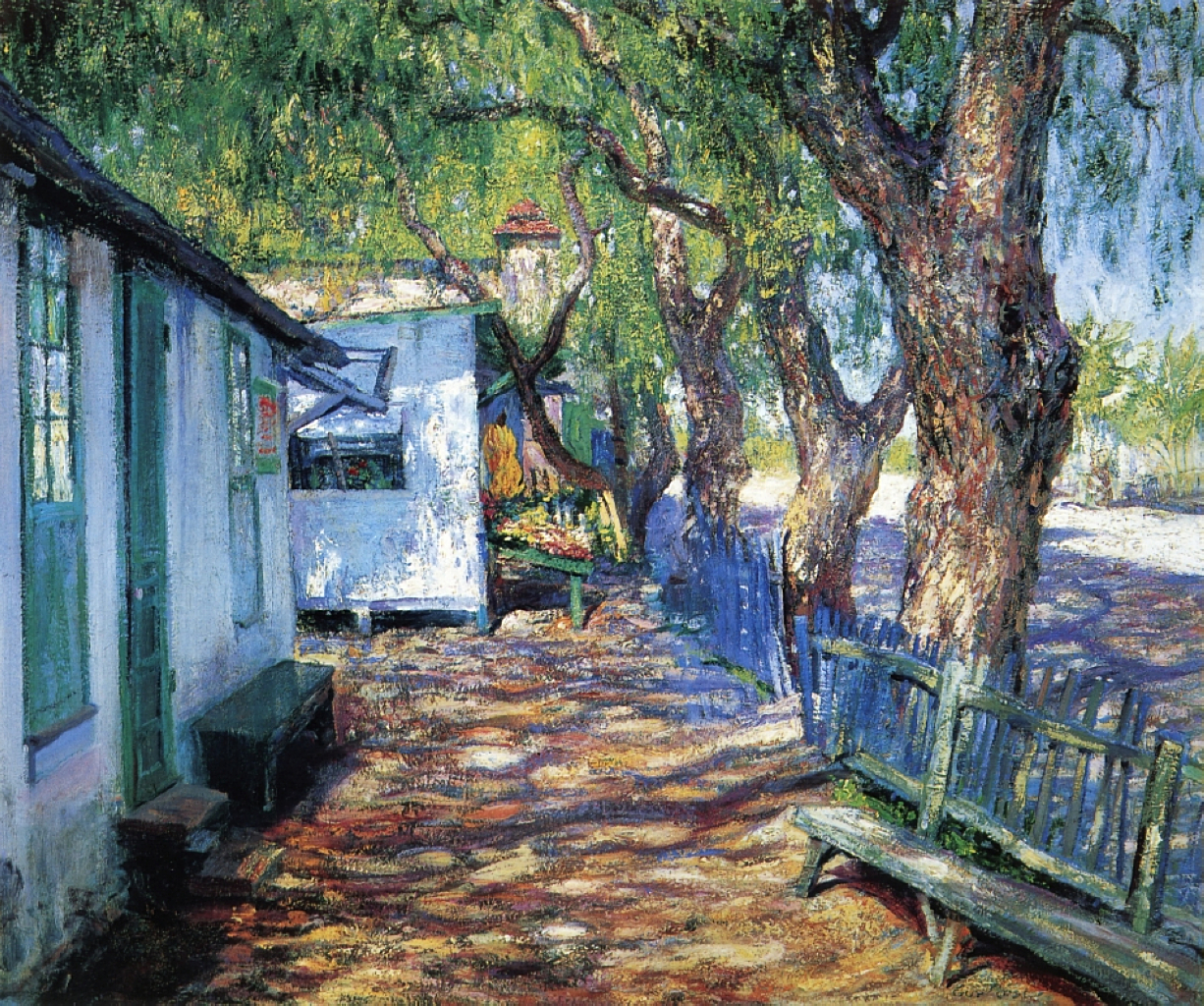 San Gabriel road